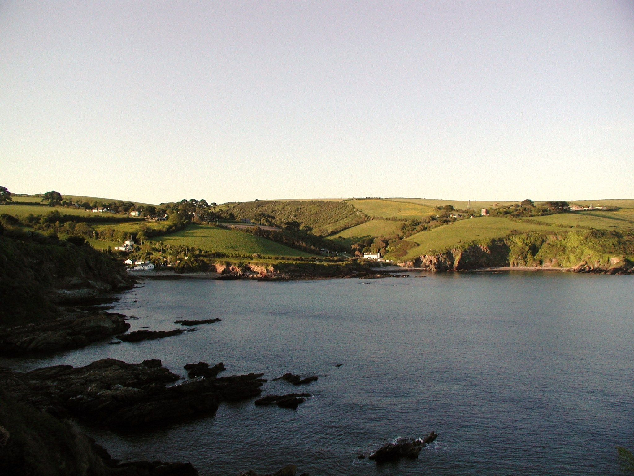 Author: user:kyren-lawrence Source: Own photograph